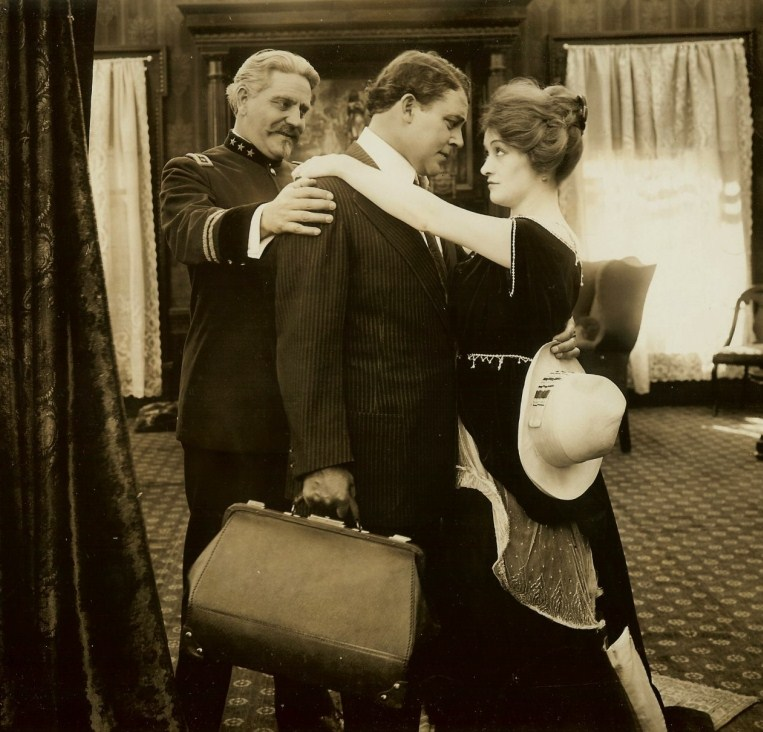 Left to Right: Henry A. Barrows, William Farnum, and Gladys Brockwell in the American drama film The Fires of Conscience (1916) - cropped still